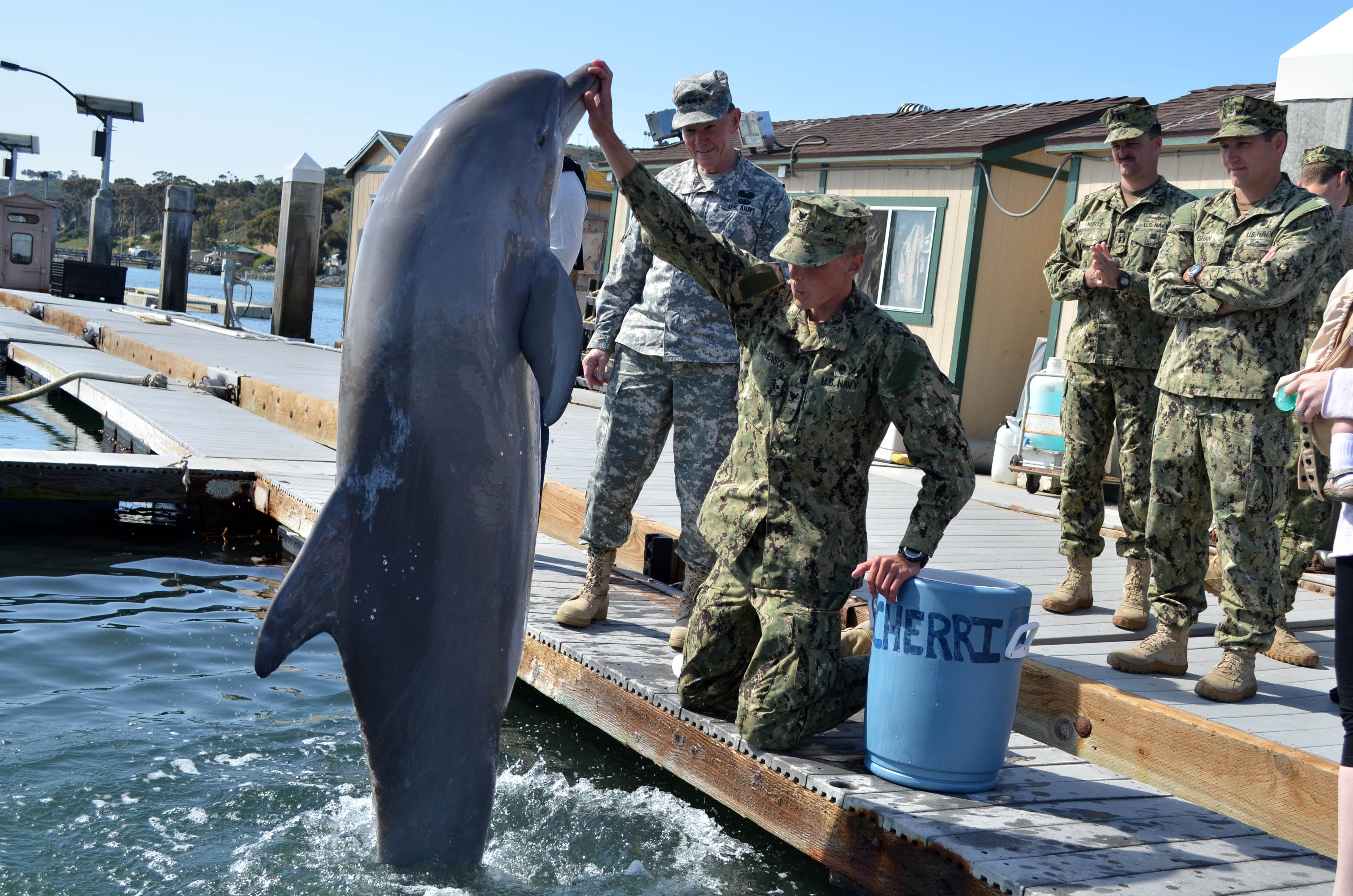 Chairman of the Joint Chiefs of Staff Army Gen. Martin E. Dempsey, left, receives a capabilities brief on the U.S. Navy Marine Mammal Program by Sailors assigned to Explosive Ordnance Disposal Mobile Unit (EODMU) 1 March 12, 2012, in San Diego. The program used bottlenose dolphins operated by EODMU-1 to locate and mark mines on the sea floor, tethered in a water column or in shallow water.